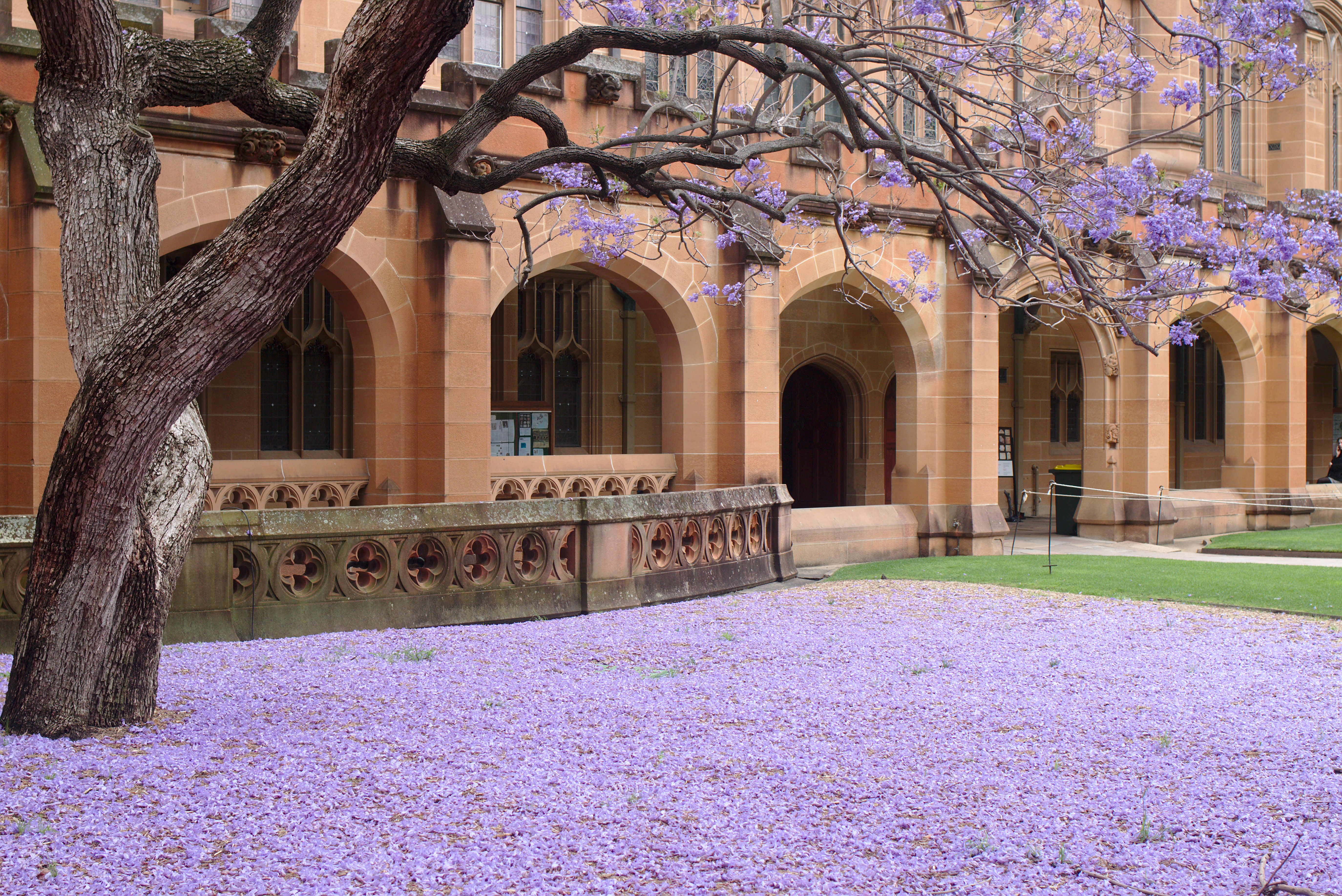 Carpet of flowers underneath the Sydney University jacaranda